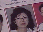 Photo of PLA Lt. Col. Liu Chaoying (劉超英) is from testimony hearings concerning Johnny Chung and noted "Lippo-Gate" hearings